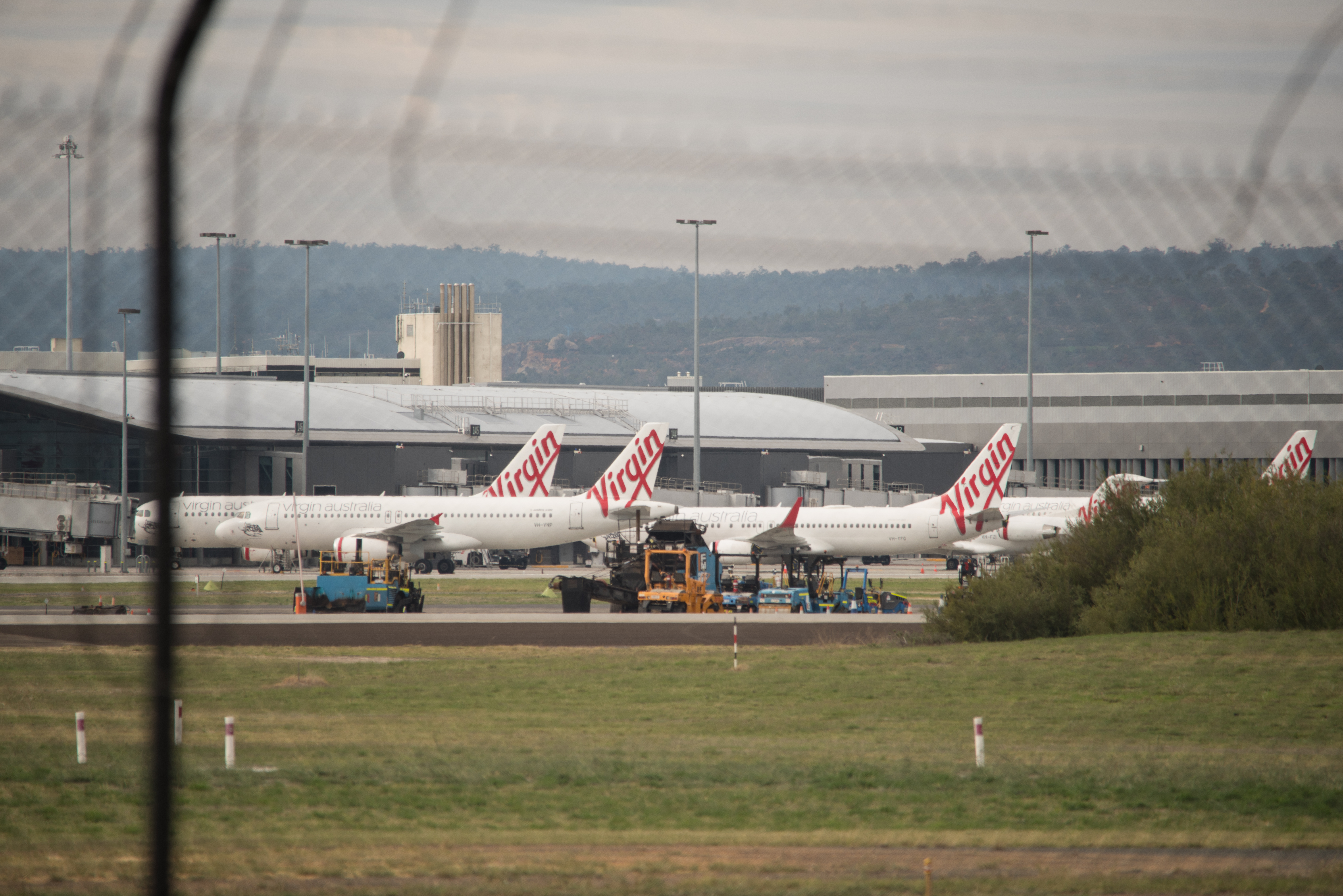 Aircraft parked up at Perth airport during Covid-19 pandemic -- post Virgin Australia going into receivership